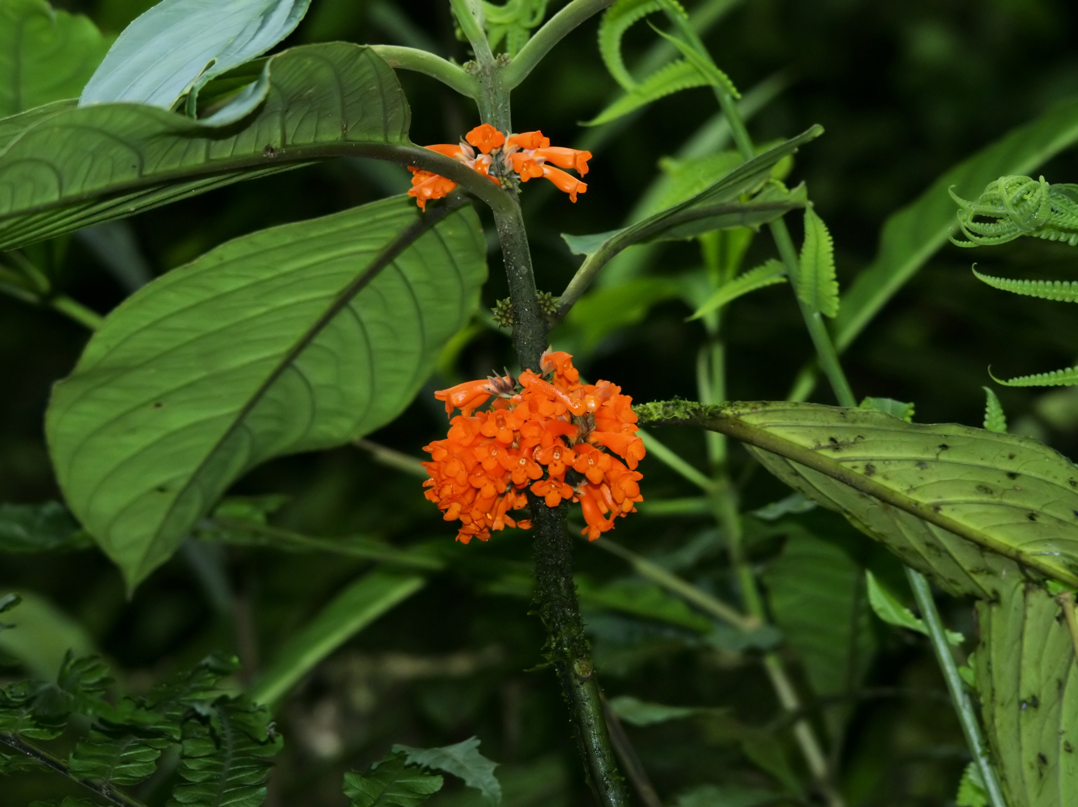 Plant close to Volcano Arenal, Costa Rica